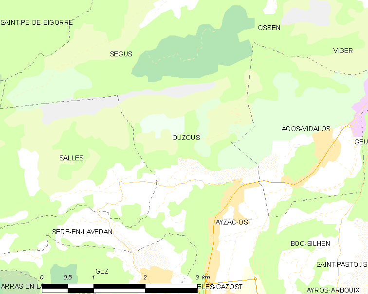 Map of French municipality